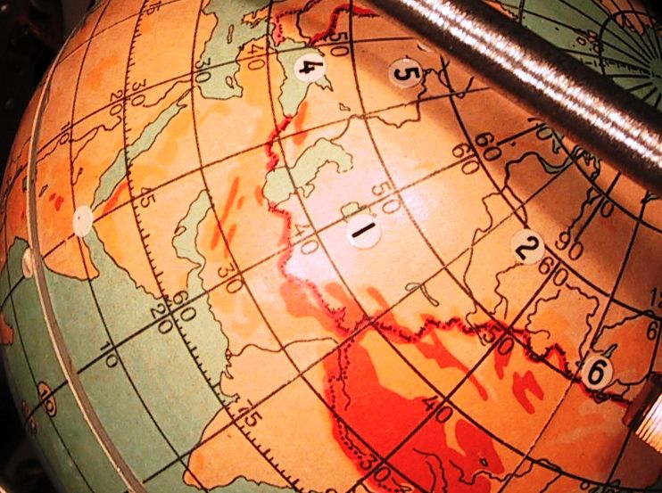 Voskhod spacecraft IMP "Globus" navigation instrument. Globe with numbered bullets indicating Earth communiction stations. (private collection)